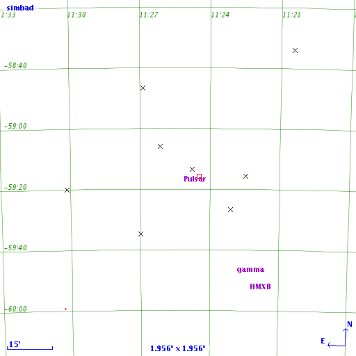 Sky plot of the astronomical X-ray and gamma-ray sources within 1° of Centaurus XR-3. Credit: Aladin at SIMBAD.